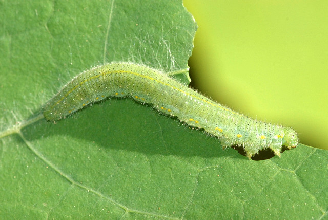 Picture taken in Commanster, Belgian High Ardennes . Species: Pieris rapae caterpillar